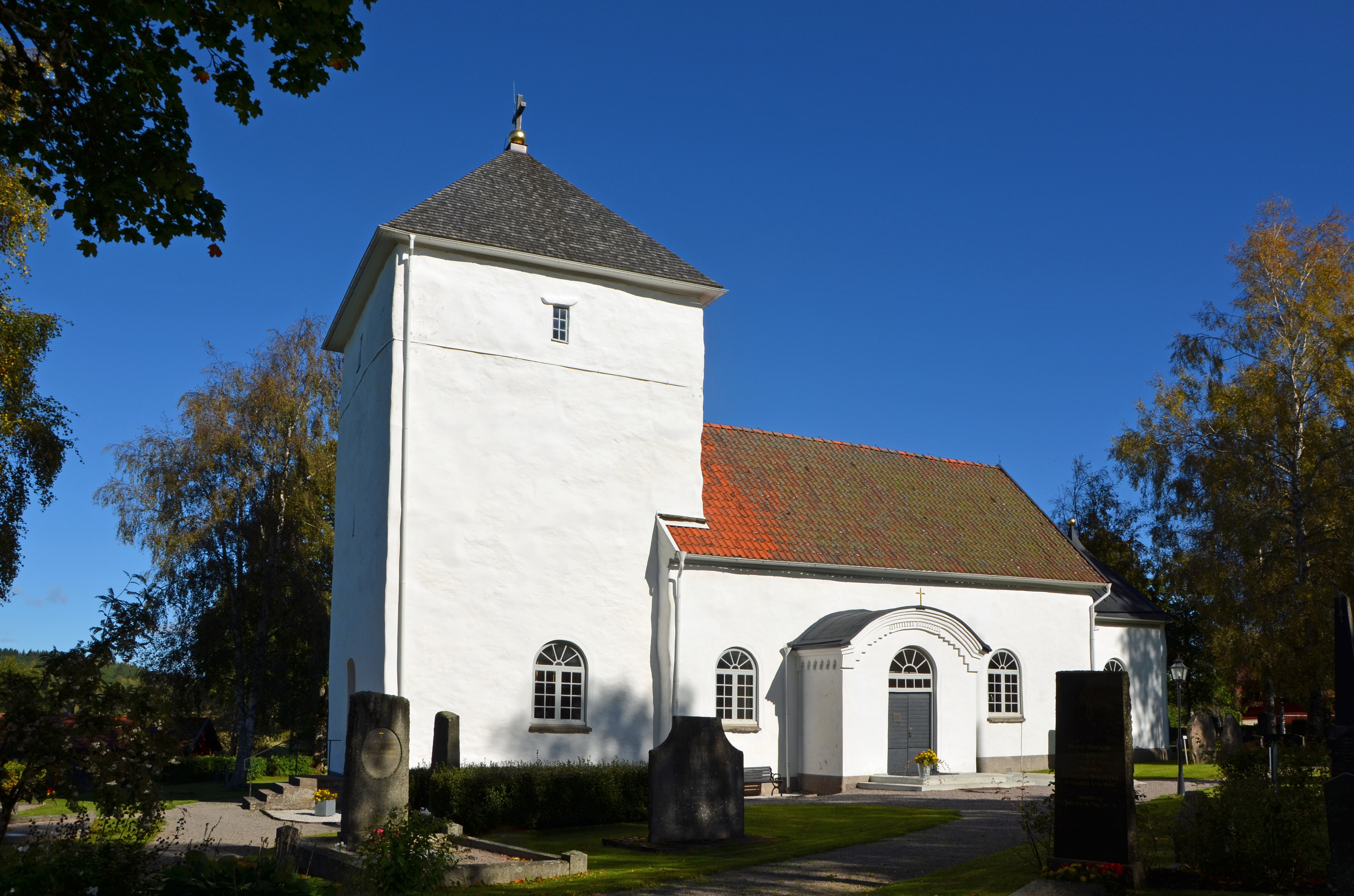 Dalums church